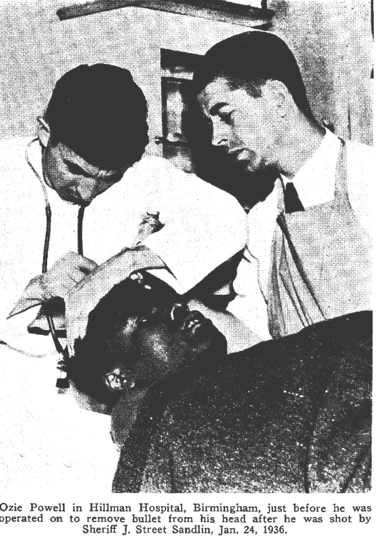 (((First published in the United States without copyright notice prior to 1978, which causes the work to be irrevocably in the Public Domain. ))))